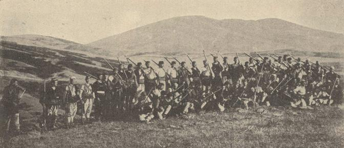 cheta of Ivan Naumov